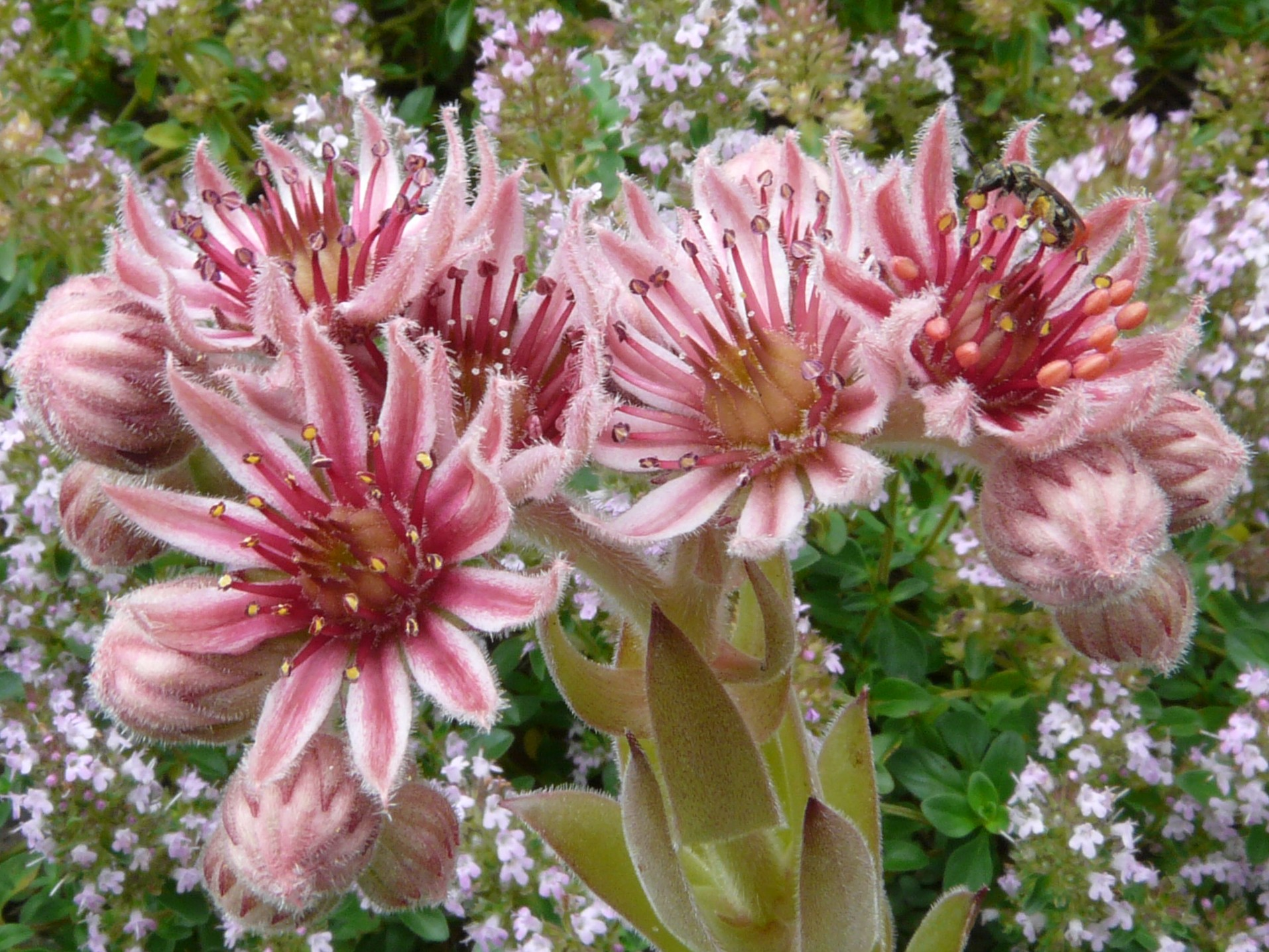 Sempervivum marmoreum (Botanical Gardens Utrecht)